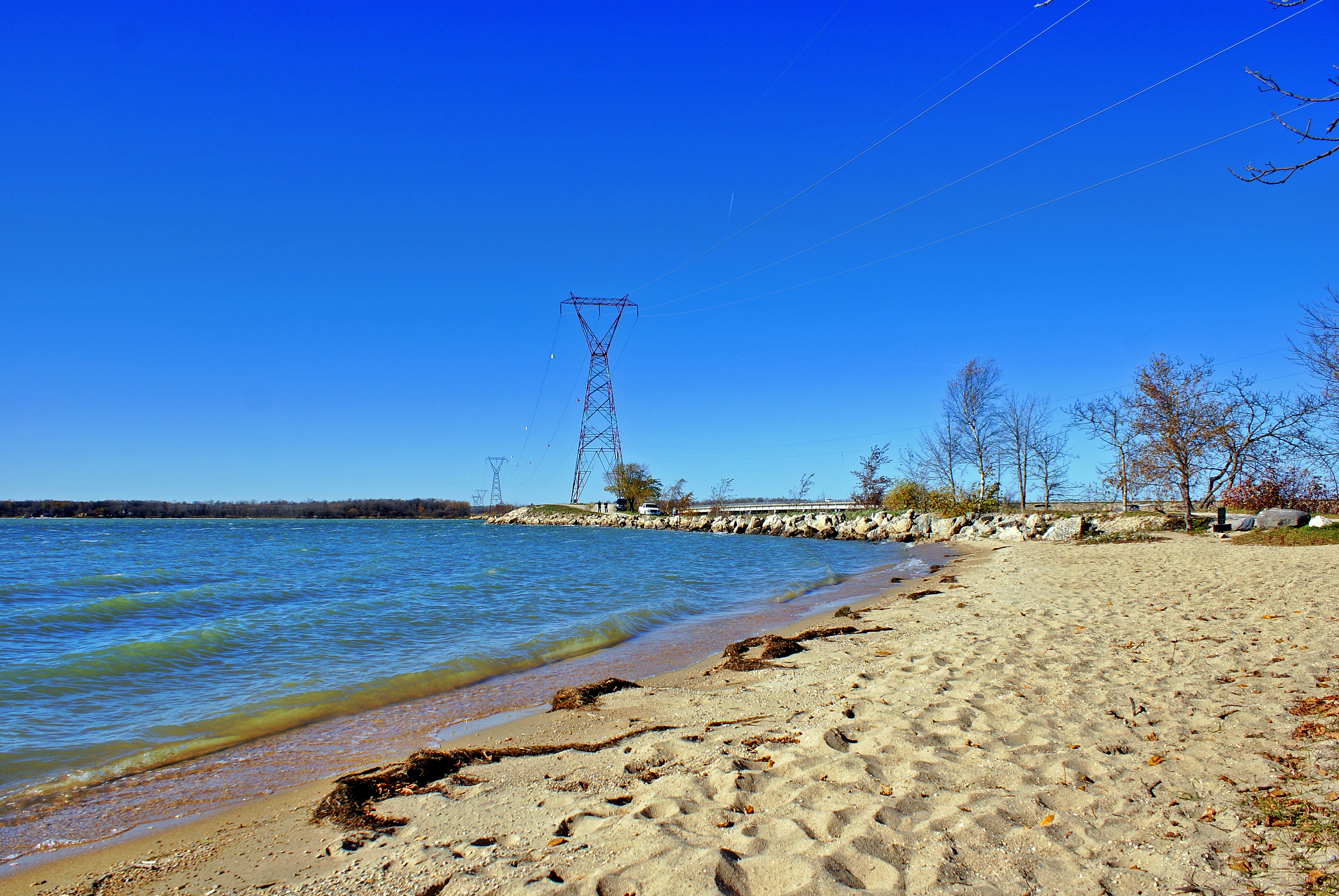 Taken at The Narrows Manitoba, looking towards the bridge crossing Lake Manitoba. (West)